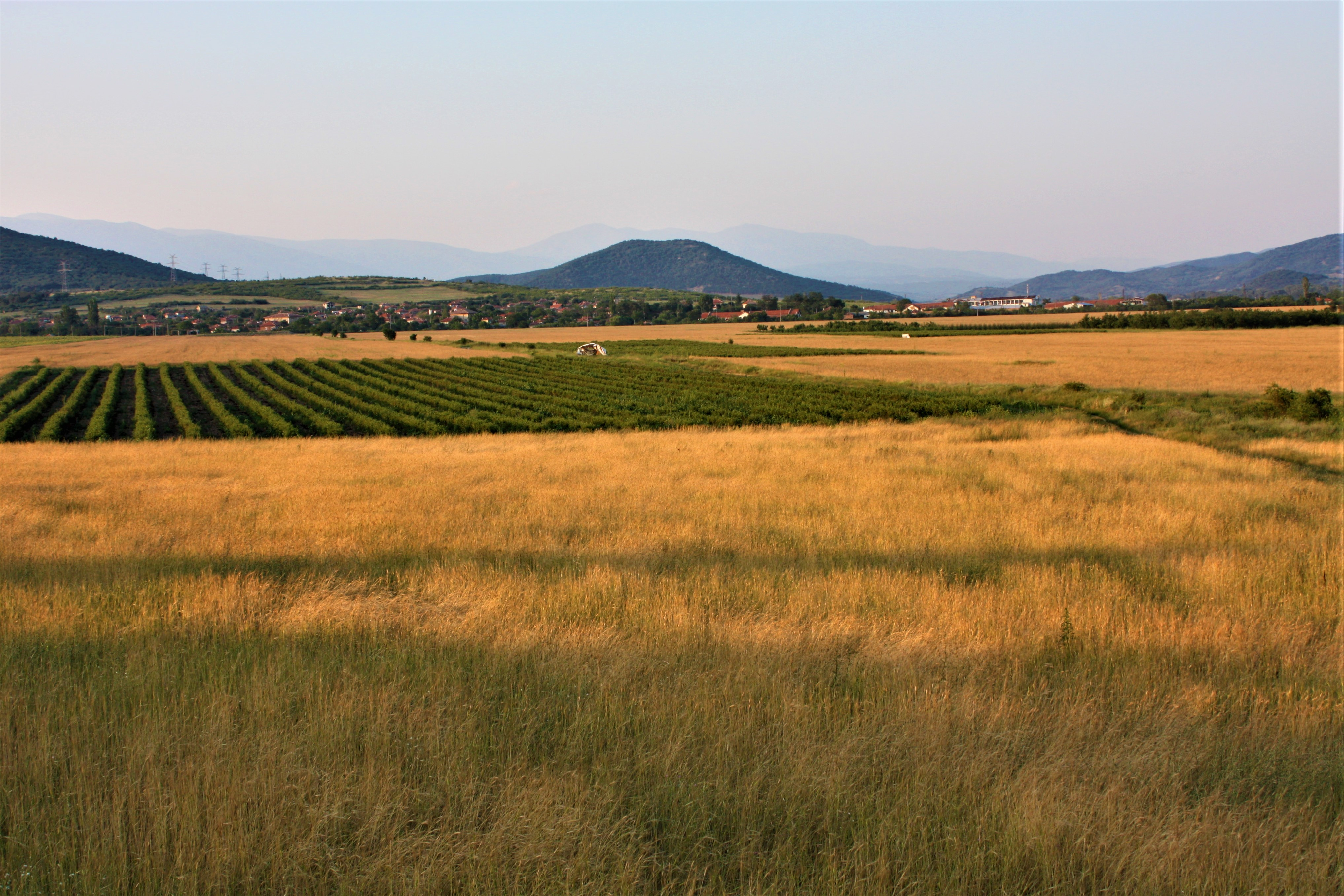 Ivan Vazovo panorama